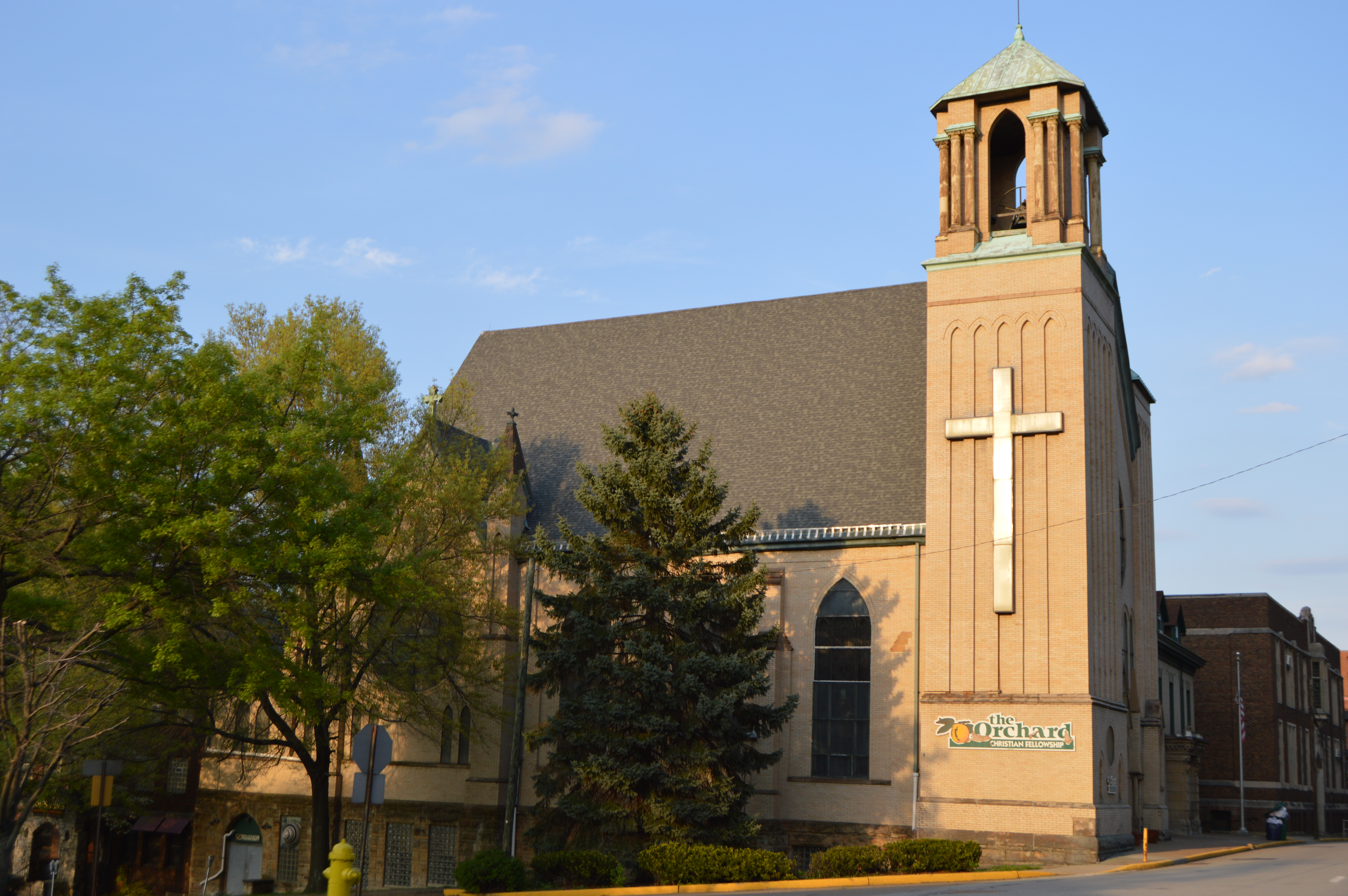 Western side and front of the Orchard Christian Fellowship (formerly St. Leonard's Catholic Church), located at 721 Schoonmaker Avenue (Pennsylvania Route 906) in Monessen, Pennsylvania, United States. It was built in 1907.